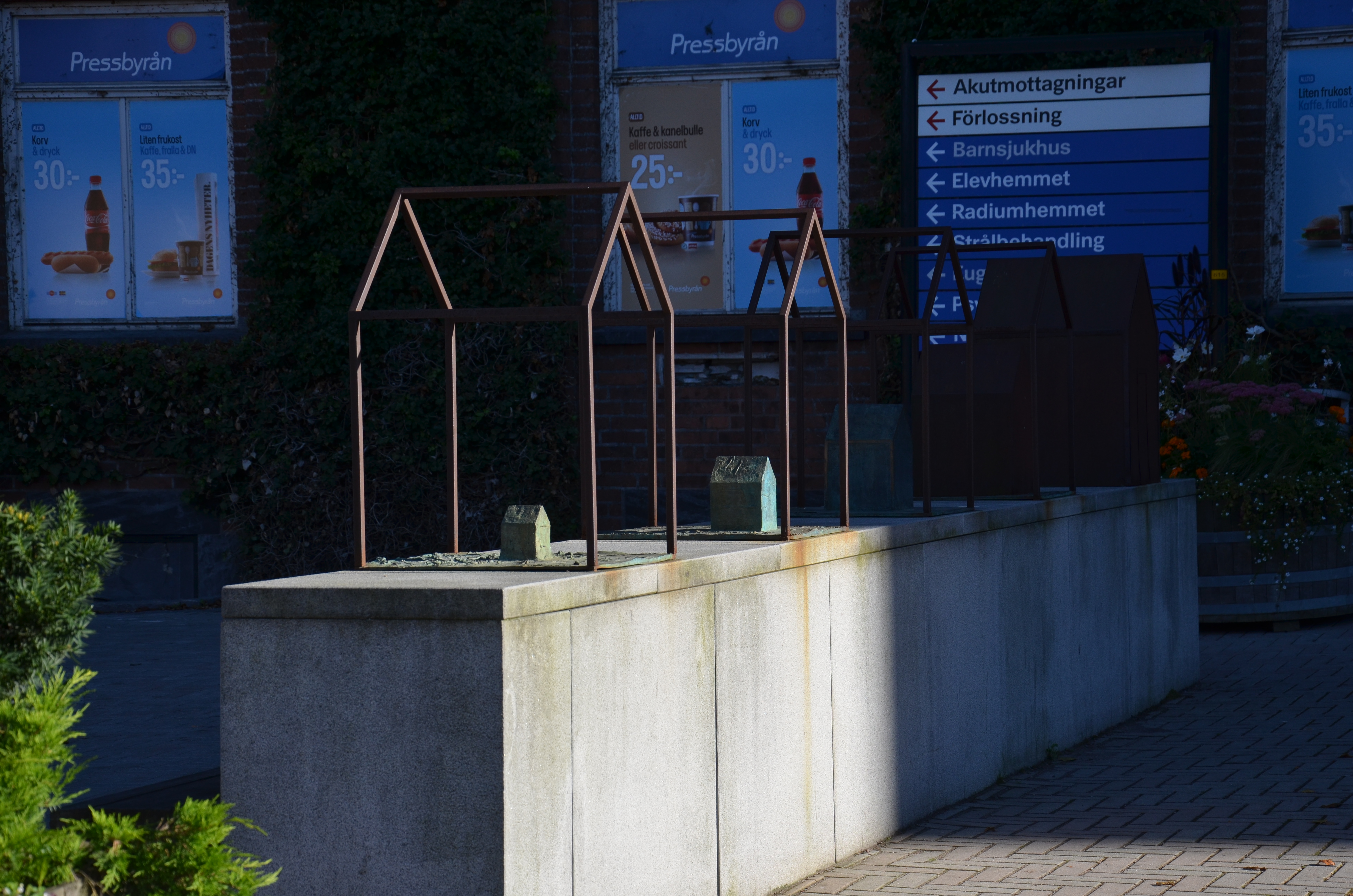 Eberhard Hölls Land och stad II, stål och brons, 2000, utanför huvudentrén till Karolinska sjukhuset, Solna